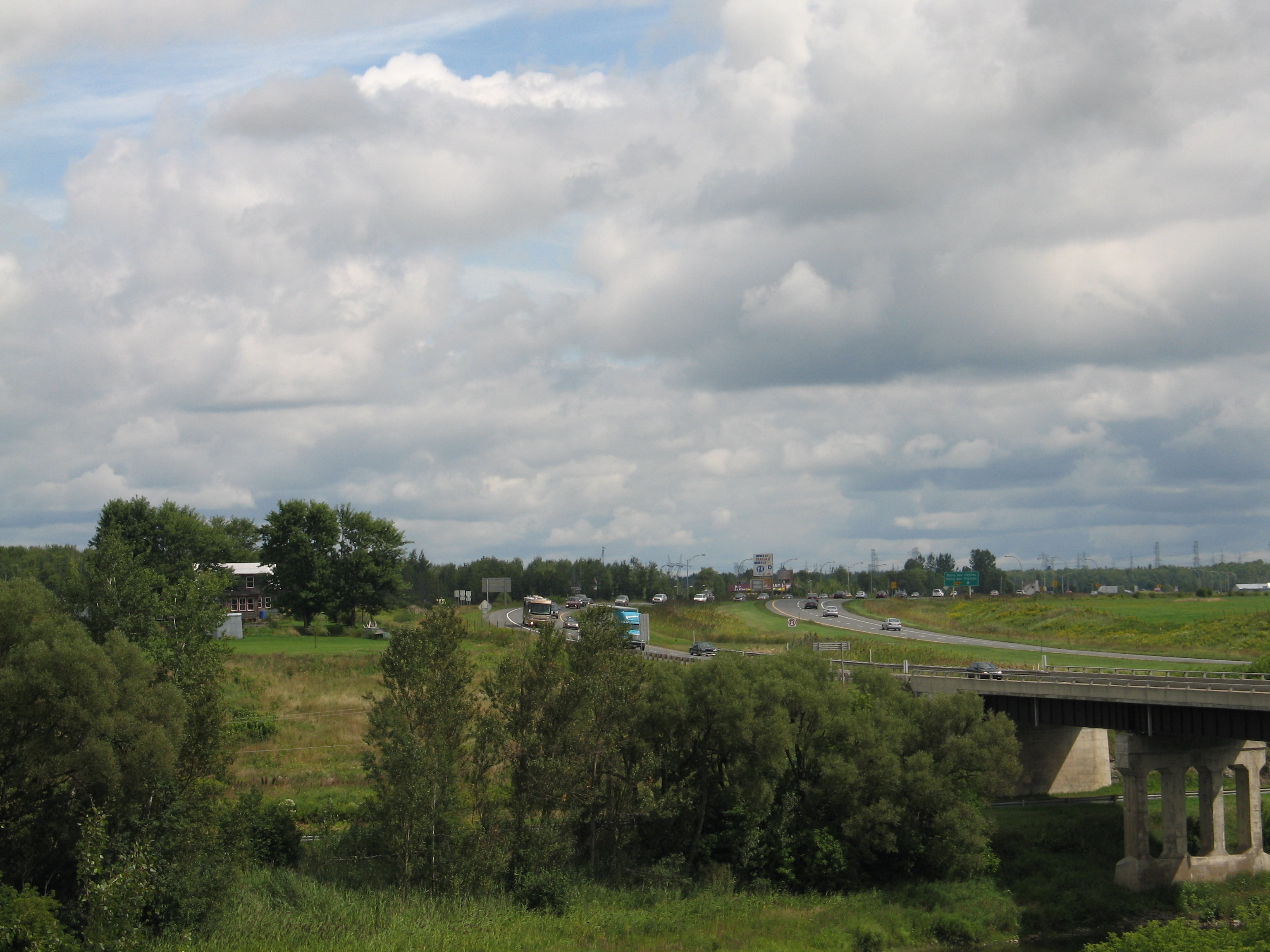 The parking of the Madrid restaurant overlooks the Nicolet River, immediately east. In the background, Autoroute 20 in Saint-Léonard-d'Aston, leading to Quebec City and Rivière-du-Loup.